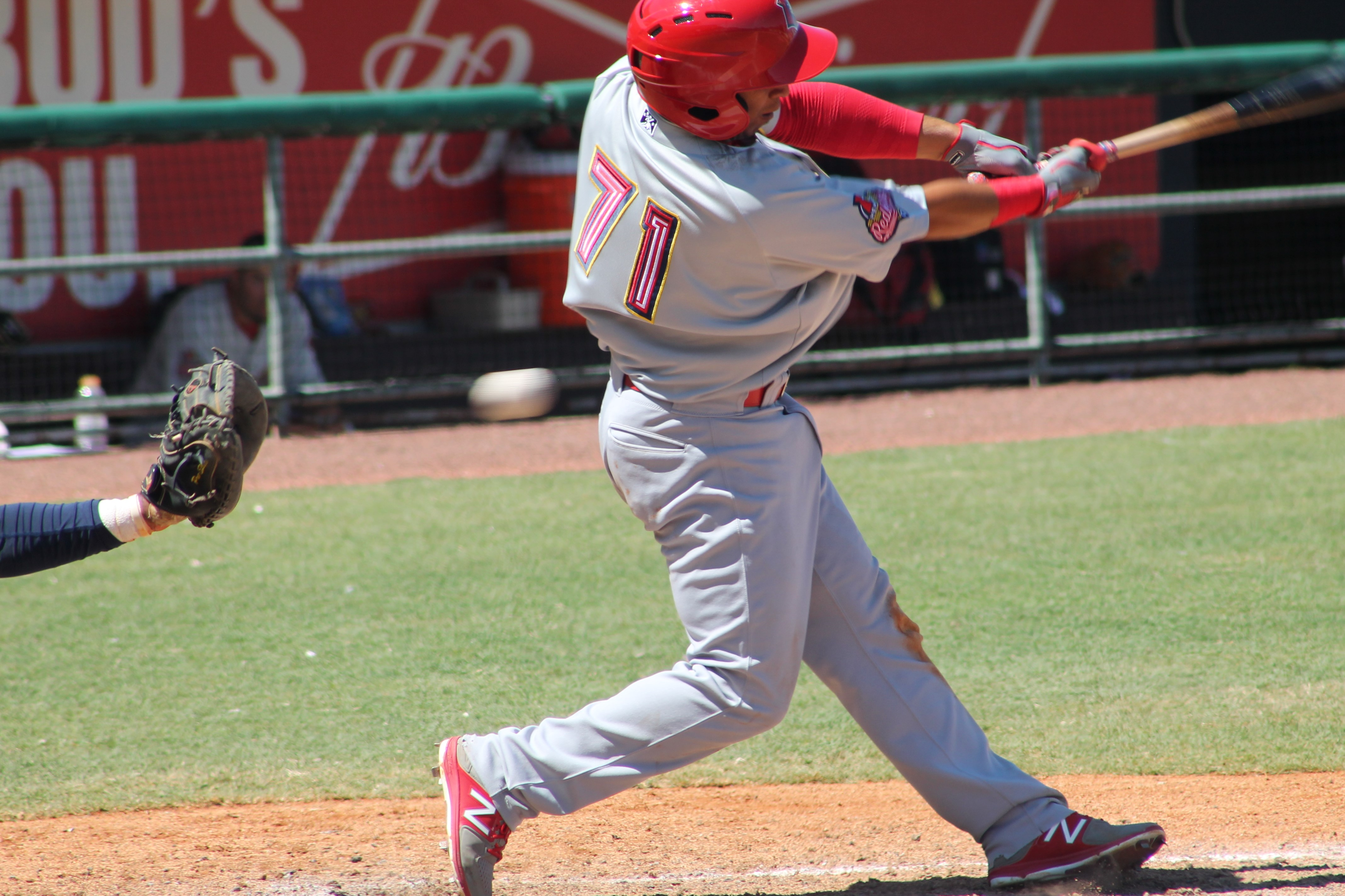 Professional baseball player Wilfredo Tovar during a game in New Orleans in April 2017.